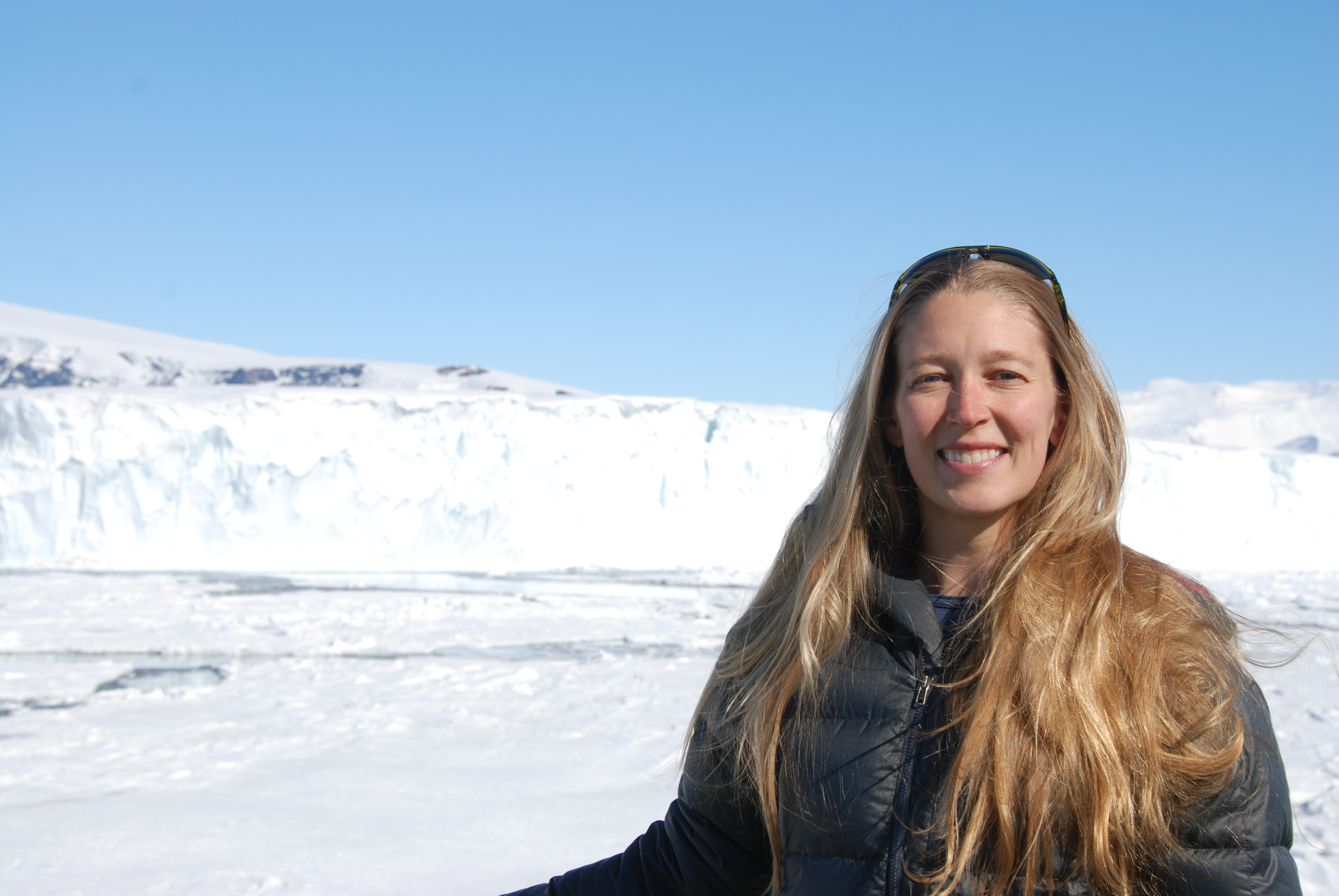 Christina Riesselman aboard the RVIB Araon in Moubray Bay, Antarctica.